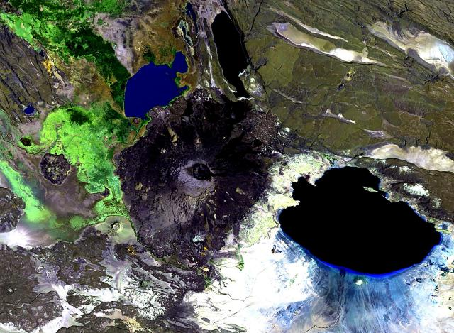 Dama Ali is a broad shield volcano in Ethiopia. It rises above the NW shore of Lake Abhe (right) at the southern end of the Kalo Plain and was the most likely source of an eruption reported to have occurred in 1631 AD. Nested circular craters are located at the summit of the dominantly basaltic volcano, and an arcuate chain of rhyolitic lava domes can be seen on the northern, western, and southern flanks. Major fumarolic activity occurs in the summit crater, and abundant hot springs are found on the volcano.